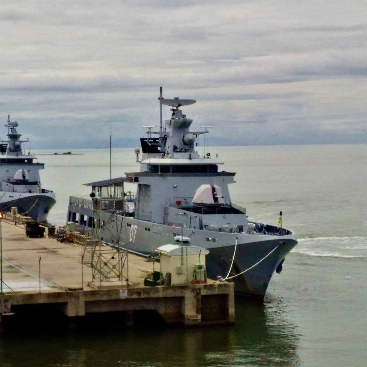 KDB Darulehsan docked in Muara Port, Brunei on 3 November 2016.